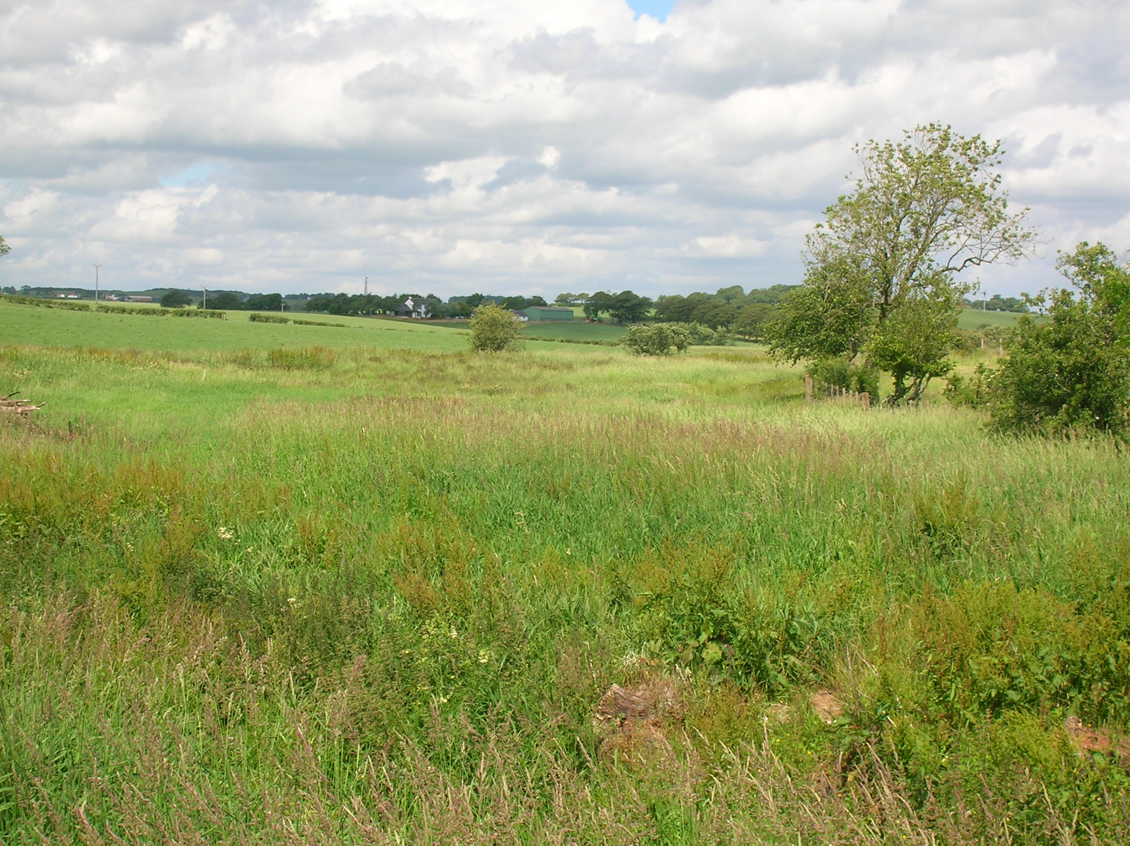 The site of Fail Loch from near Redrae Farm. South Ayrshire, Scotland.